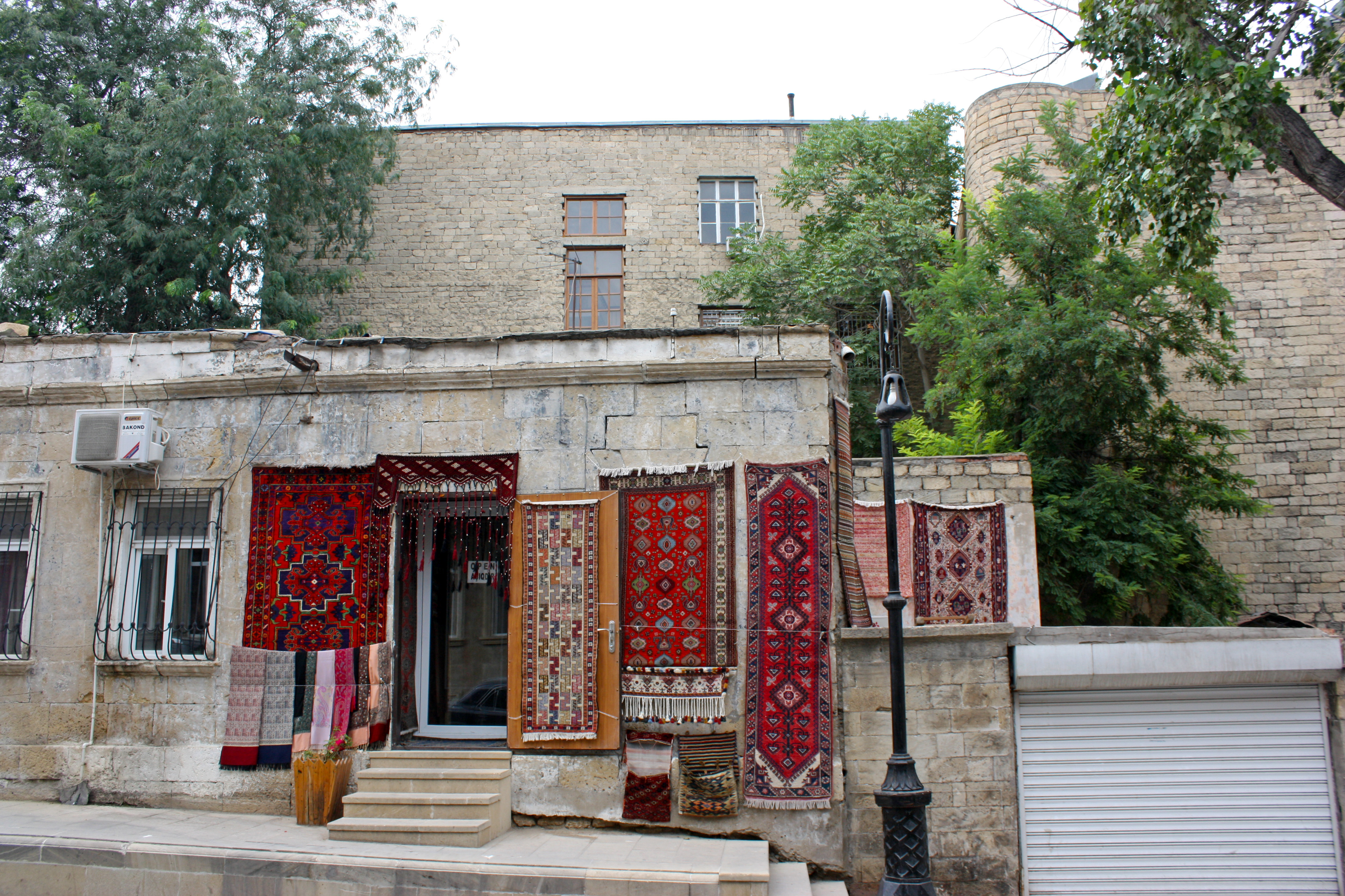 Carpet store in the Old City, Baku, Azerbaijan